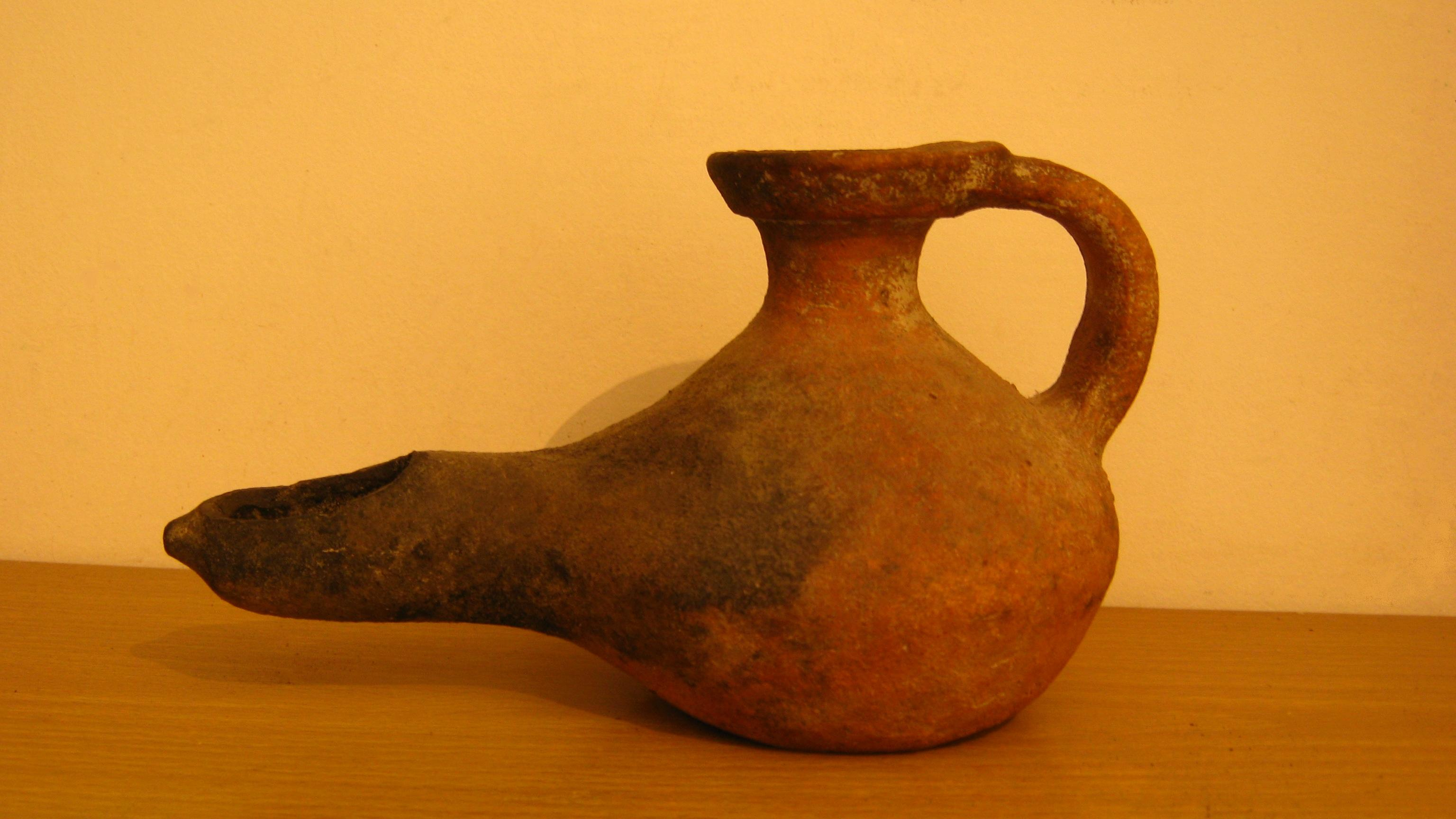 Salyan ÇIRAQ#REDIRECT